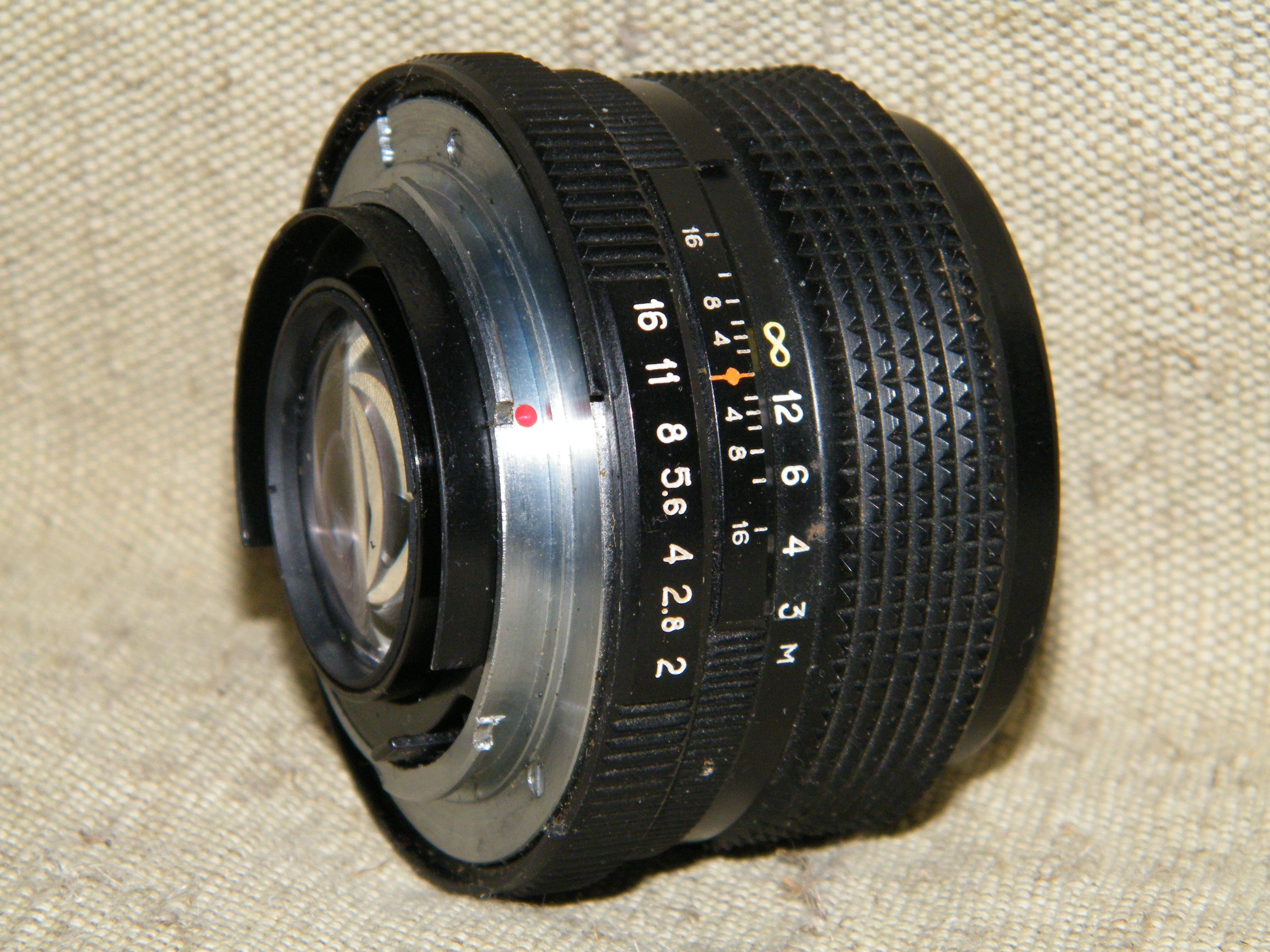 Kiev 19